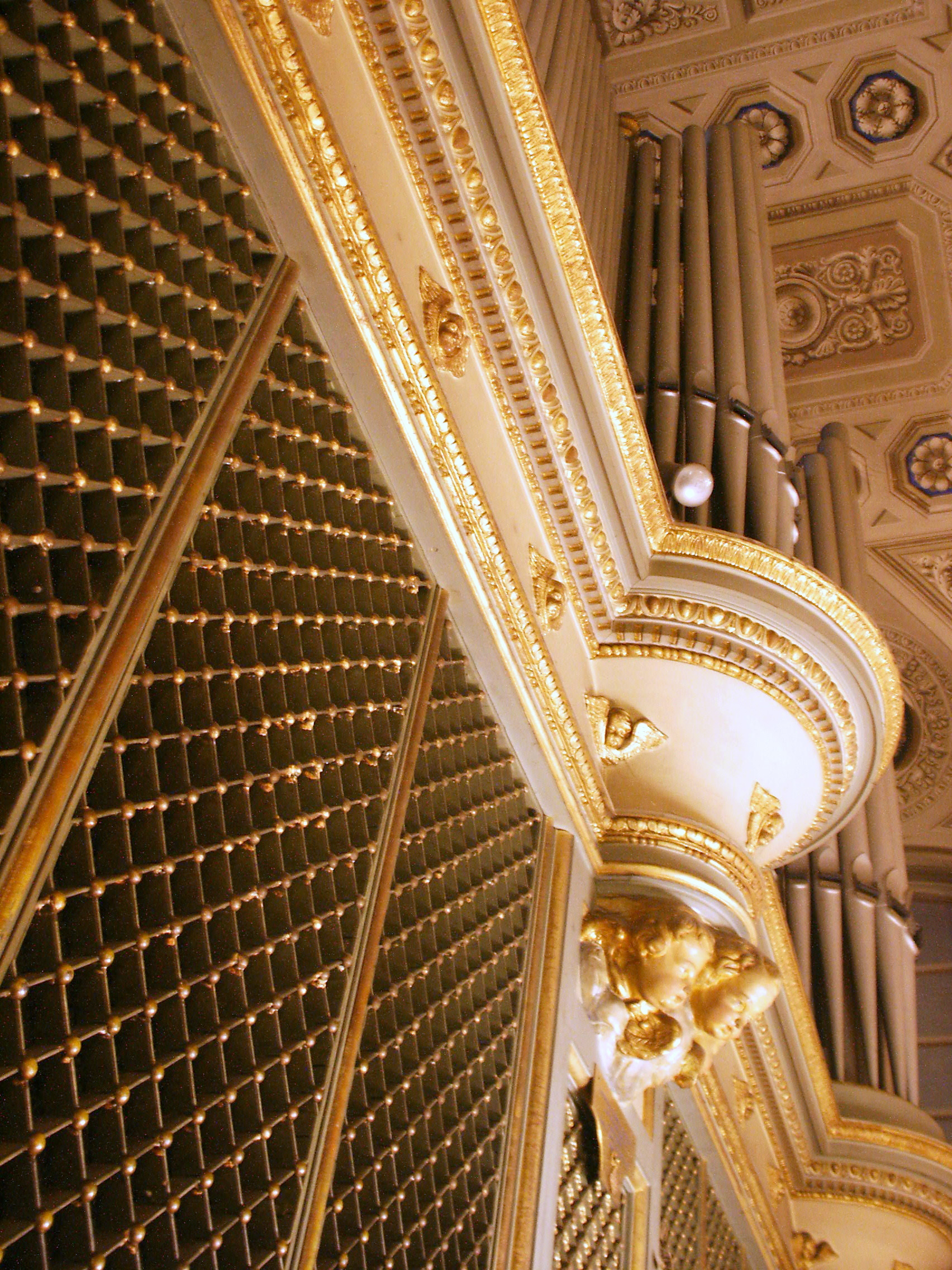 Church of St. Vito, Lomazzo